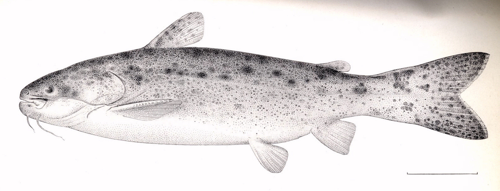 Glanidium ribeiroi Haseman. Type Subject: Catfishes Tag: Fish